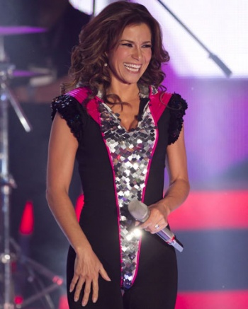 Alessandra cantando en concierto de Sentidos Opuestos